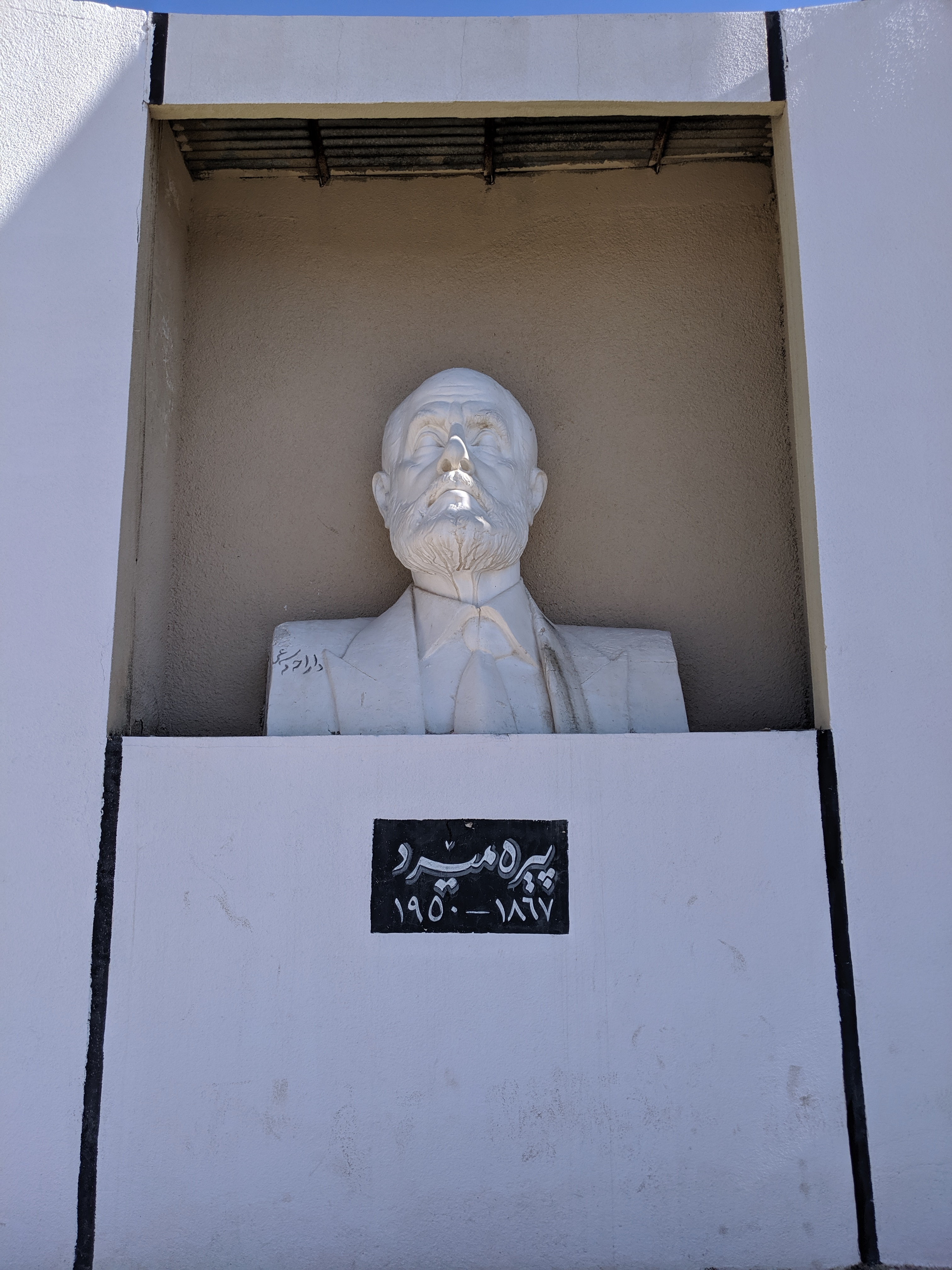 Piremed statue, Slemani main square